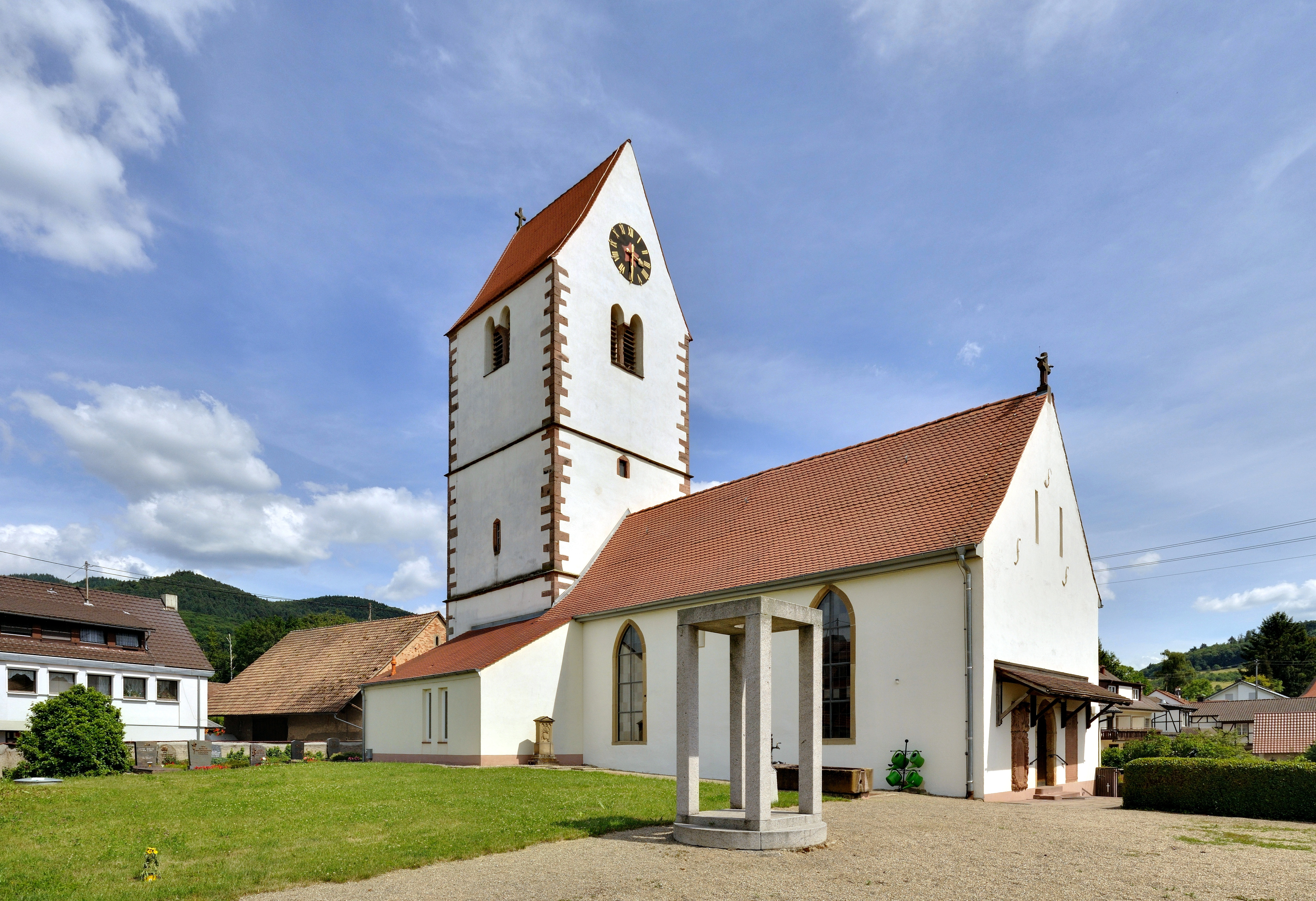 Obereggenen: Protestant Church